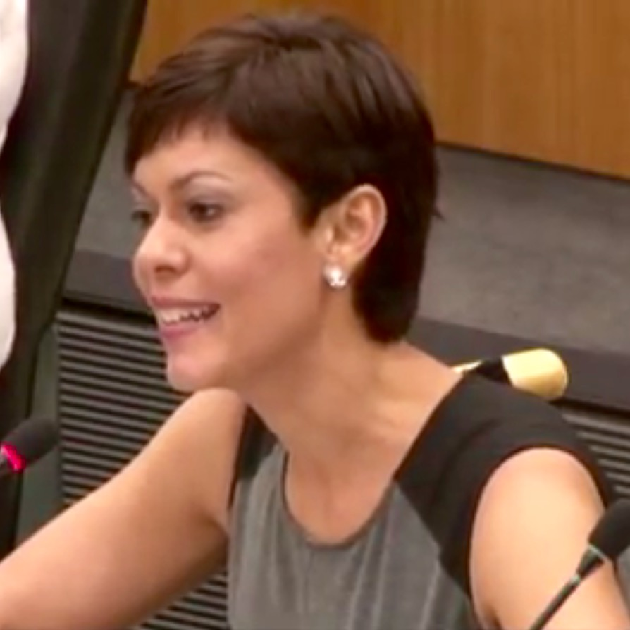 Maria de Lourdes Santiago at the United Nations, Decolonization Committee on Colonial Case Puerto Rico (june 2016)